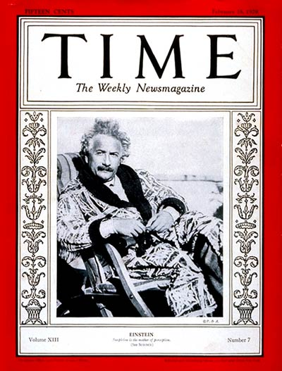 Albert Einstein on Time cover, 1929.